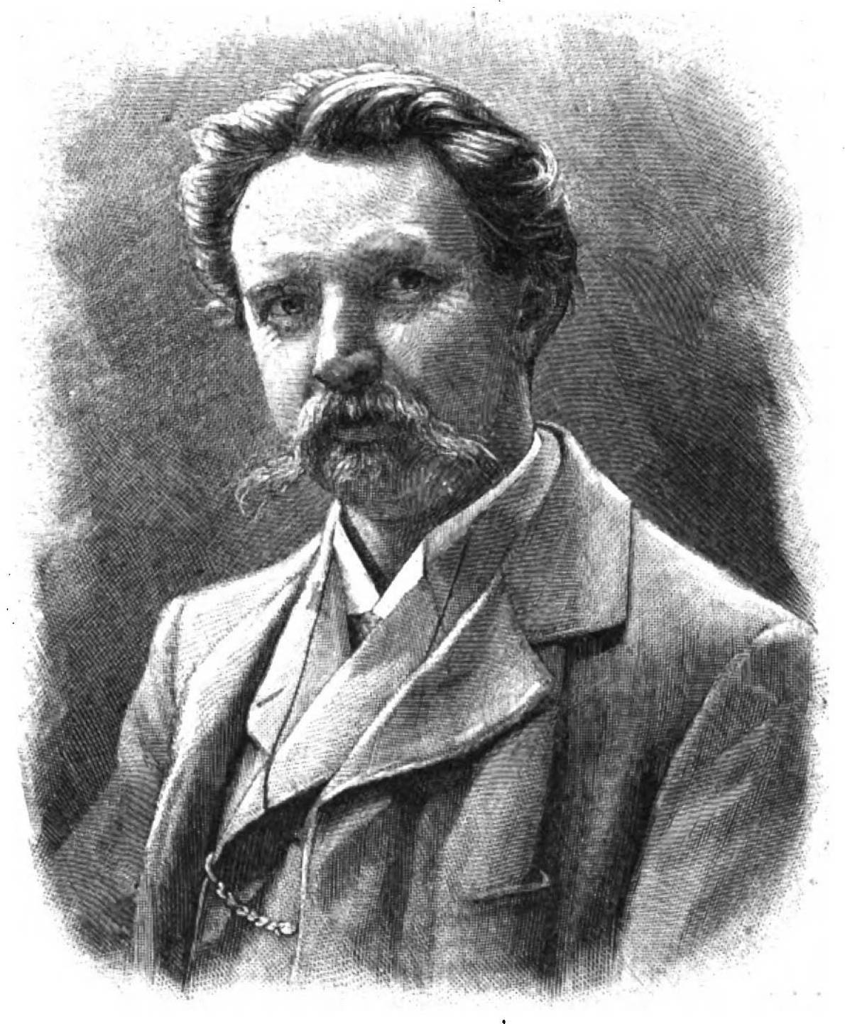 no caption